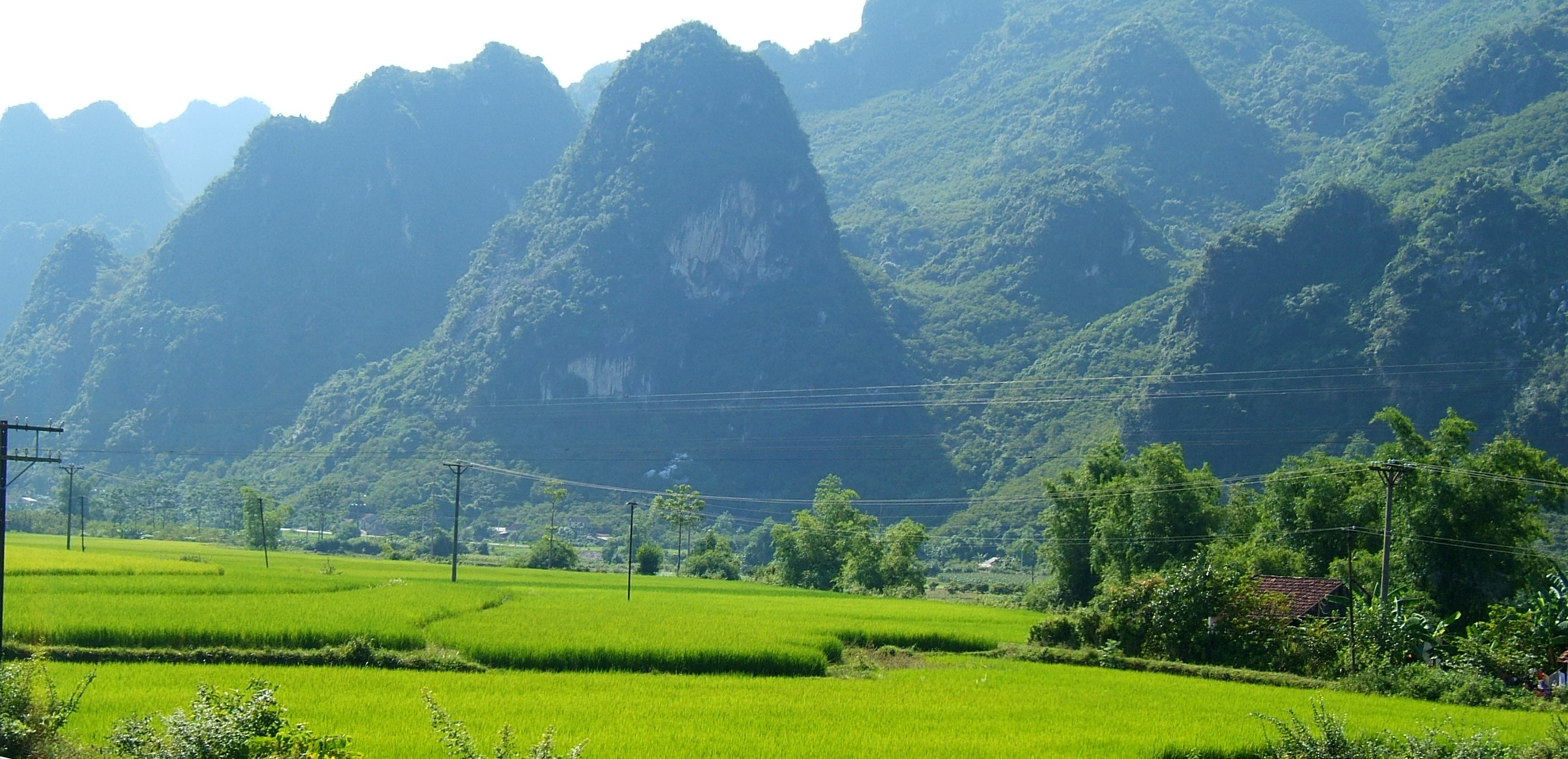 Cai Kinh mountain range and Chi Lang field